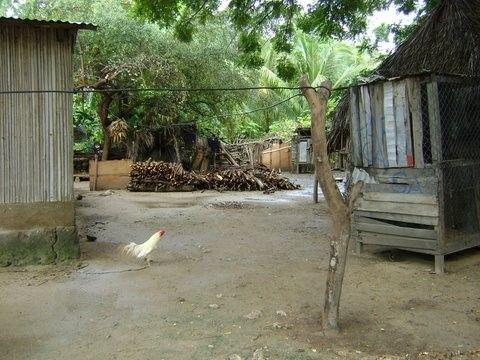 Village life in Com